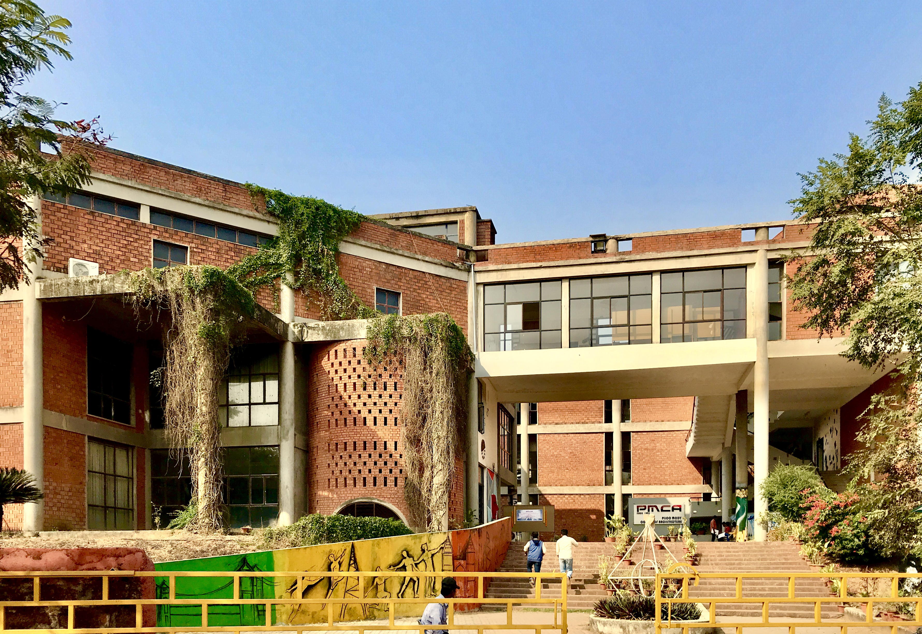 Piloo Mody College of Architecture (January 2019)